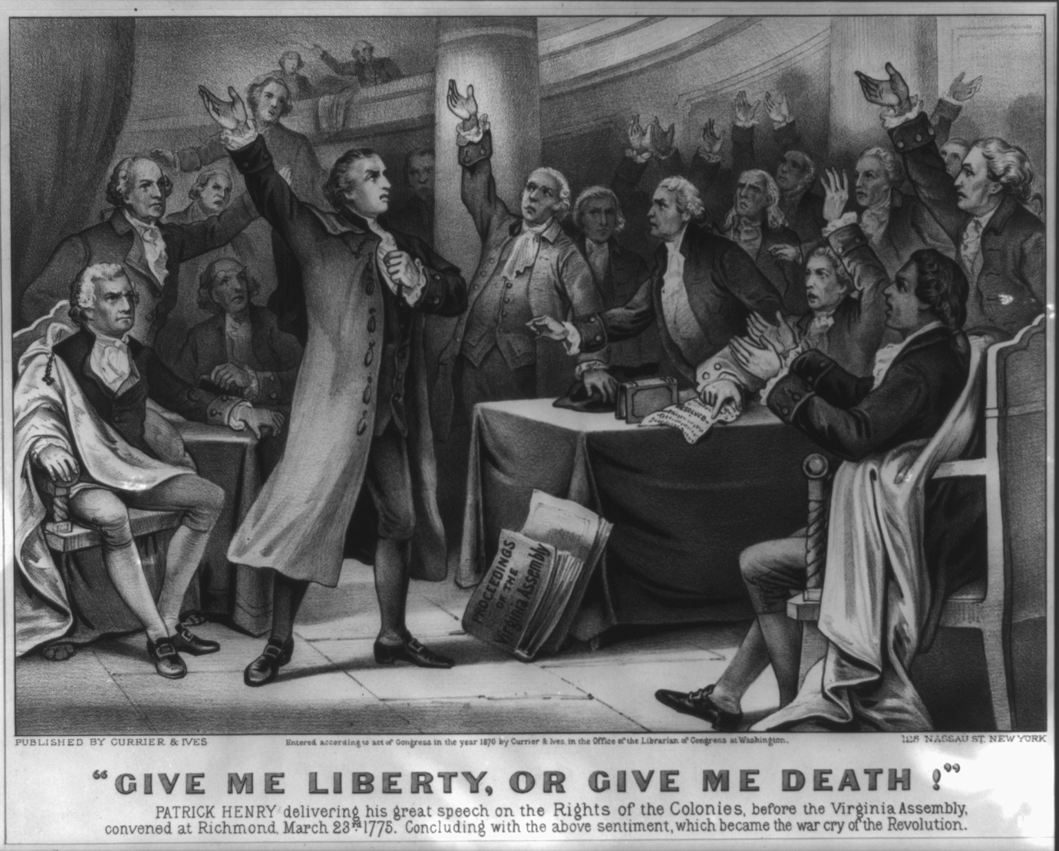 Title: "Give me liberty, or give me death!" Physical description: 1 print : lithograph. Notes: Reference print in LOT 4412 AC.